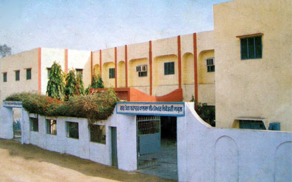 Guru Teg Bahadur Khalsa Senior Secondary School, Malout